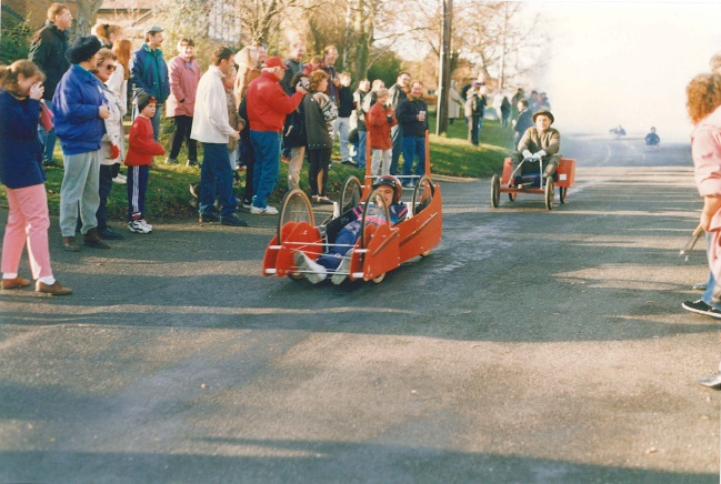 Homemade go-karts racing past the Royal Oak Pub, in Hail Weston, Cambridgeshire, England. New Year's Day, 1997.